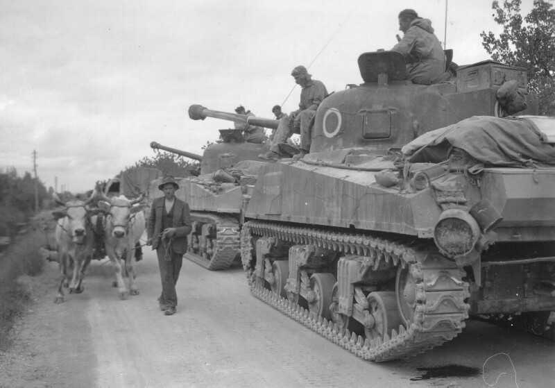 Sherman Firefly tanks of the Pretoria Regiment somewhere in Italy during 1944